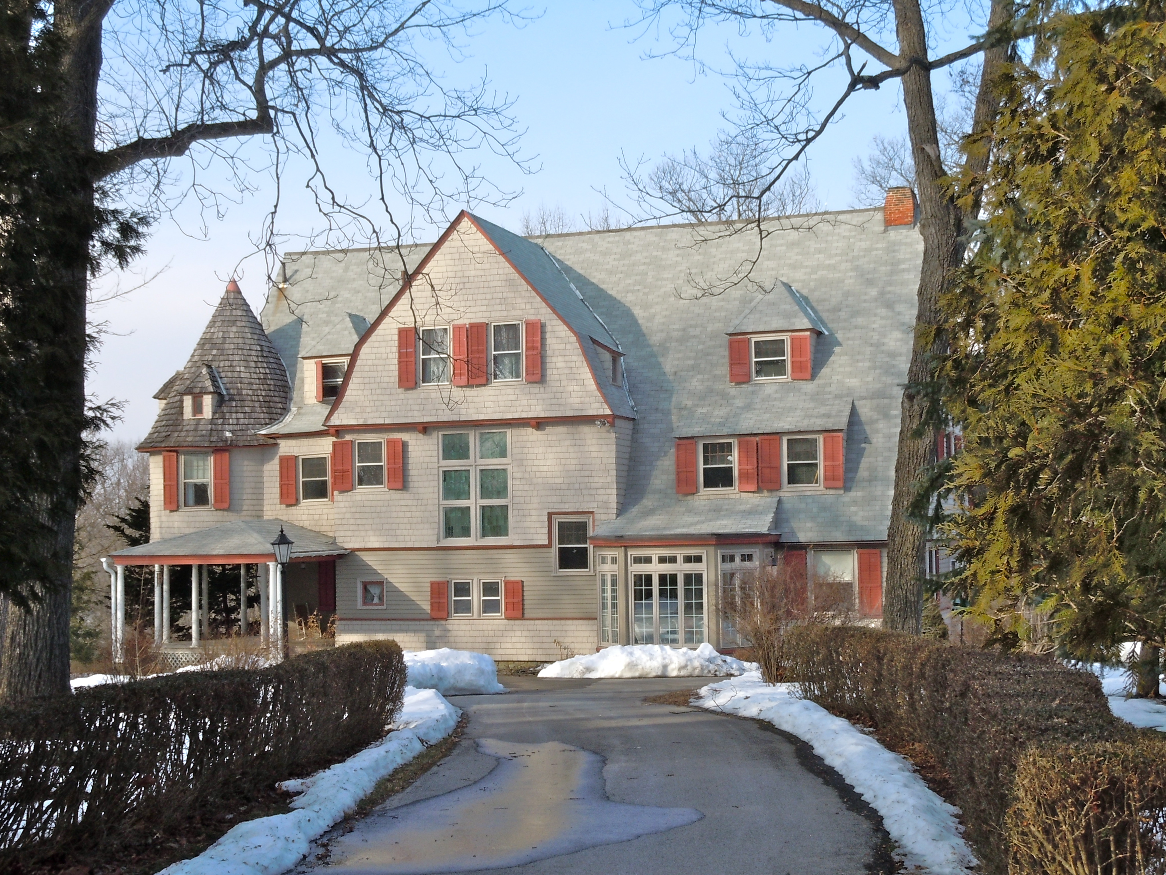 Francis W. Kennedy House on the NRHP since August 2, 1984. At 4717 Highland Avenue (off Boot Road) near Exton, West Whiteland Township, Chester County, Pennsylvania. Beautiful house